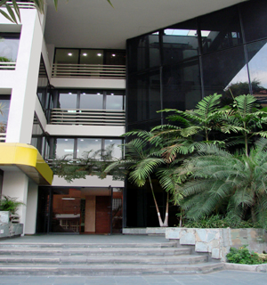 D.O.P. Foundation - Caracas Facilities.